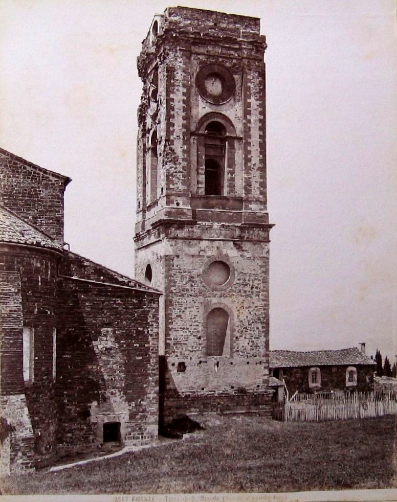 Giacomo Brogi (1822-1881), "Florence - Church tower of San Miniato". Catalogue # 3517. 1870s Today.